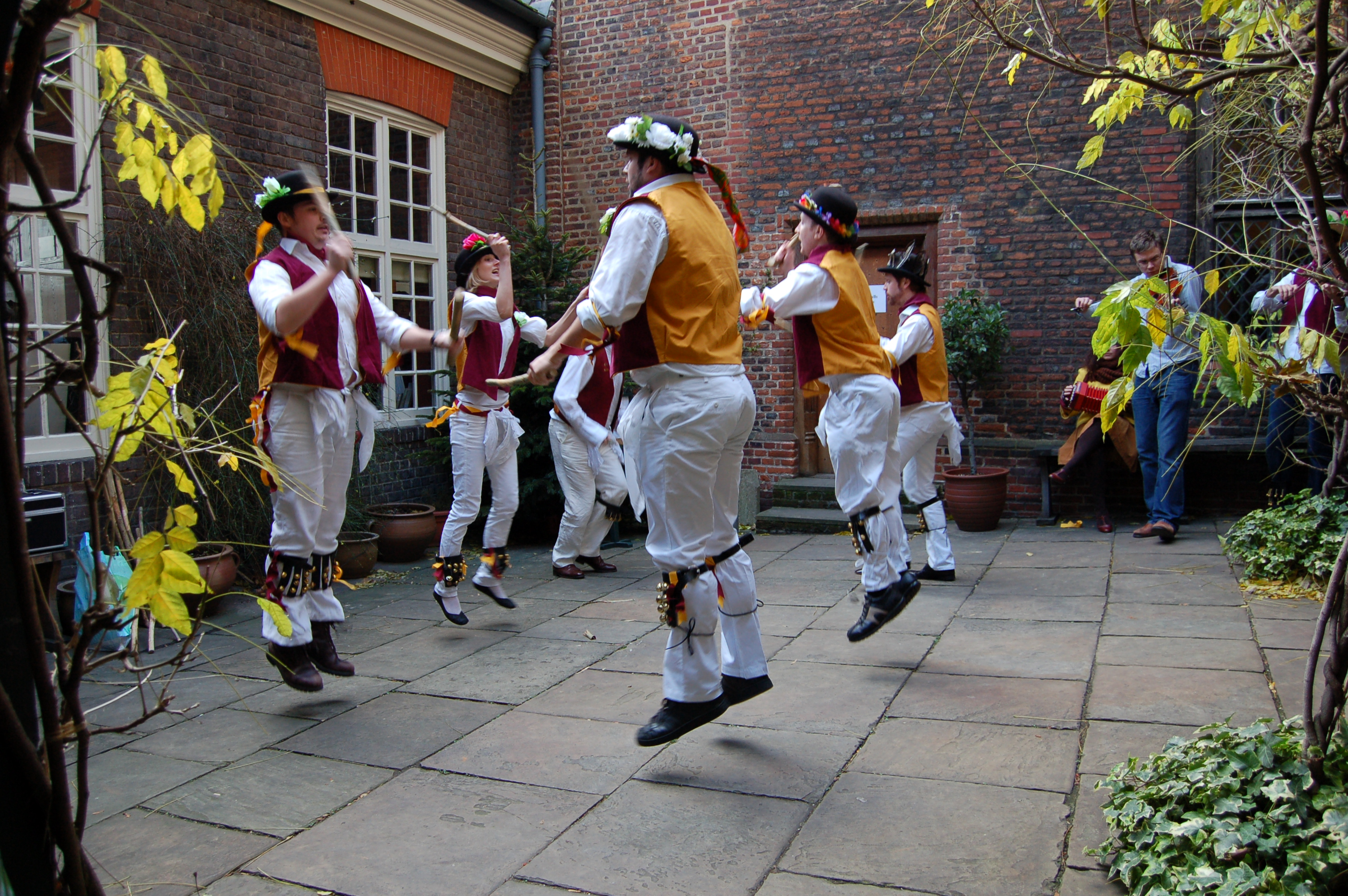 I did it. Attribution required. K B Thompson Morris dancing at Sutton House (NT).